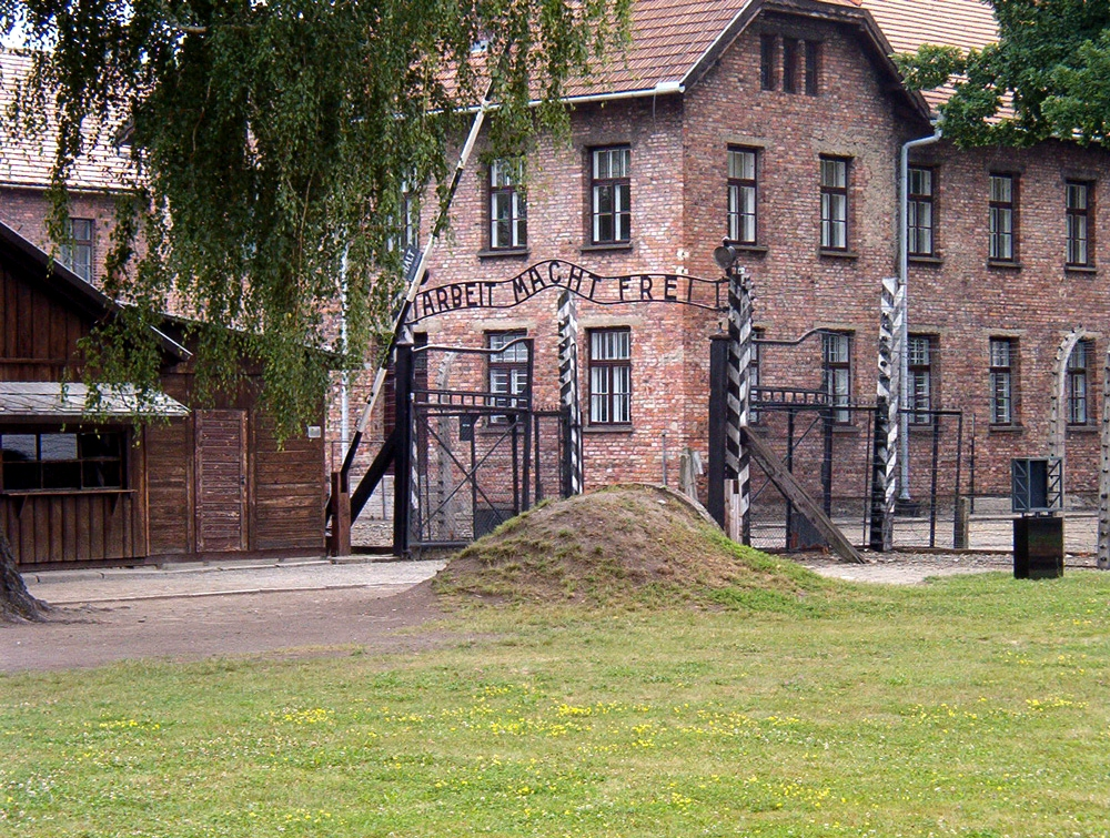 Main gate of Auschwitz I German Nazi death camp (1940-1945) in Poland.